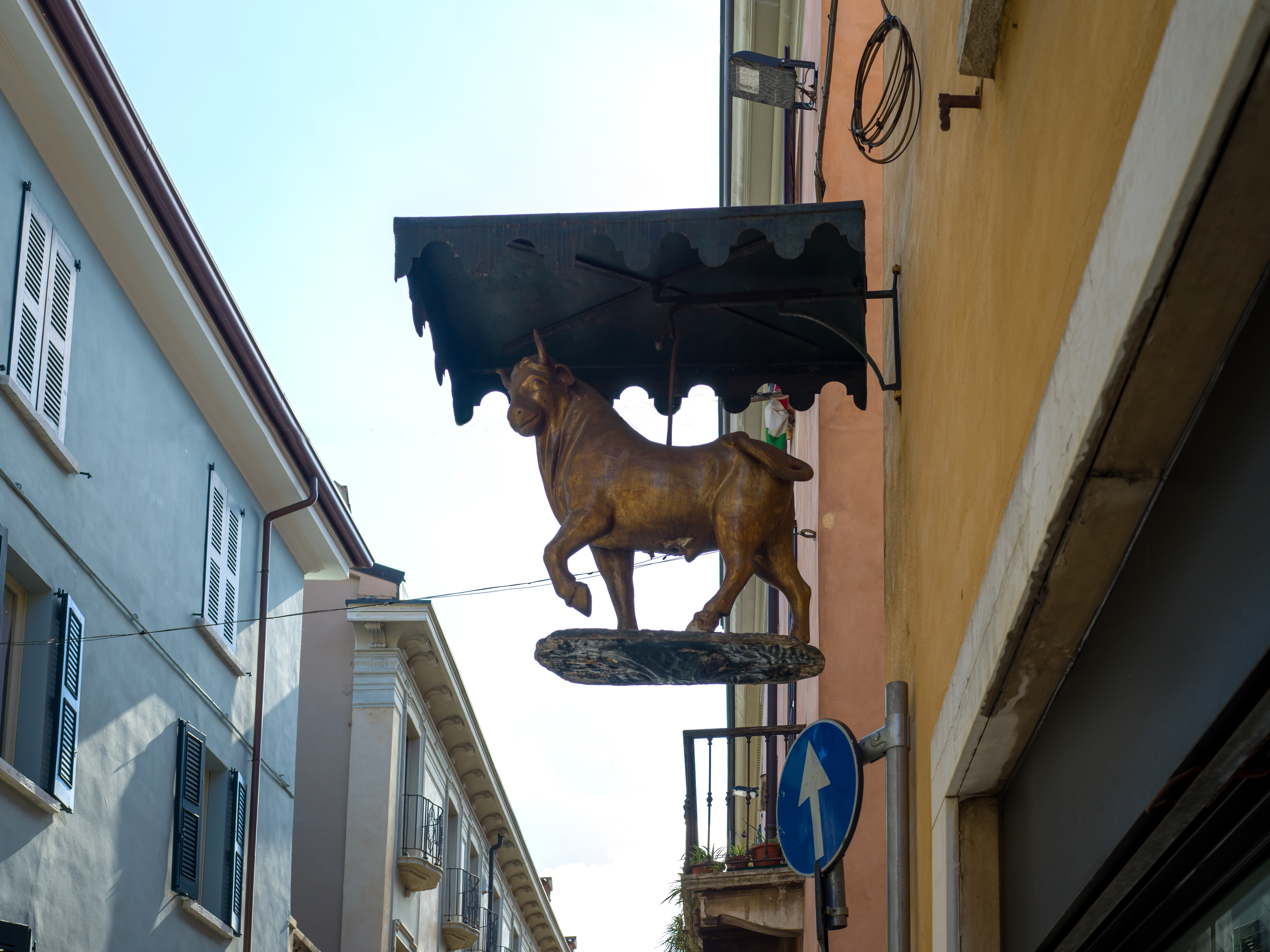 Bue d'oro the golden ochs in Brescia.